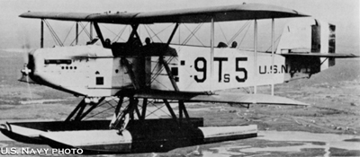 Martin T3M-2